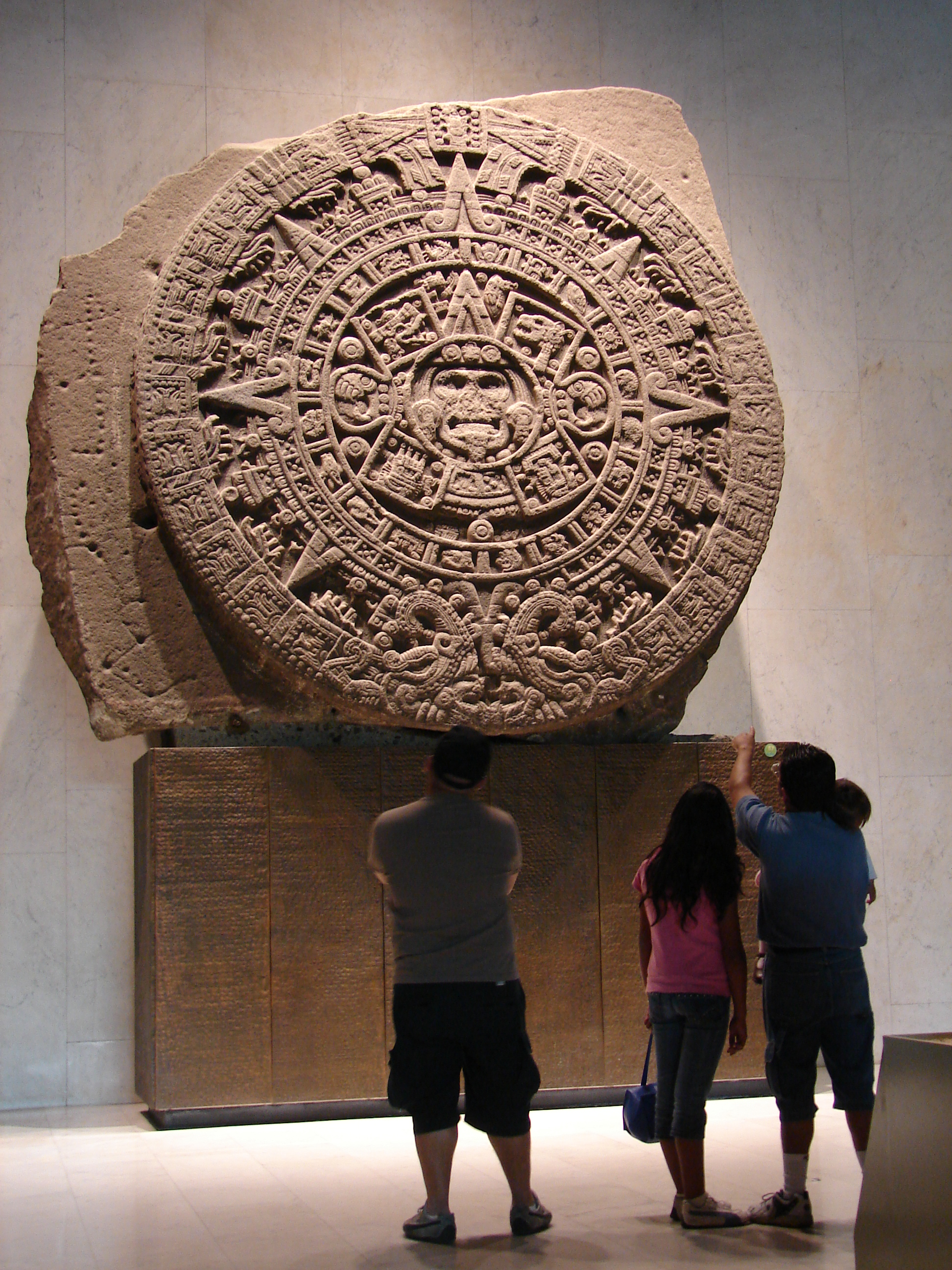 Aztec Stone of the Sun